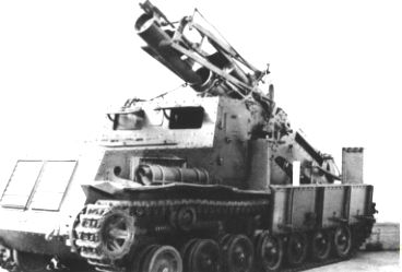 Type 4 "Ha-To" experimental 300mm self-propelled mortar of the Imperial Japanese Army